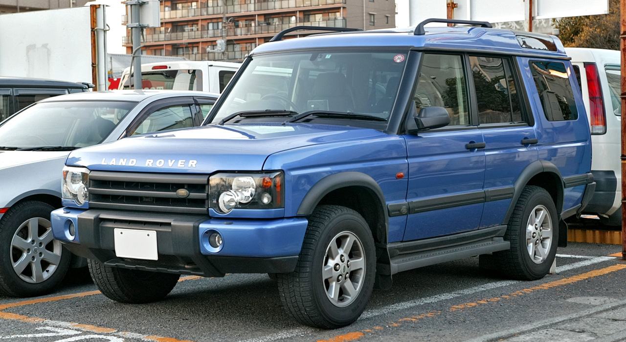 Land Rover Discovery Series II